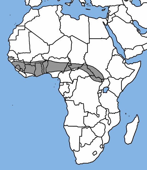 The geographic range of the Aba Roundleaf Bat.